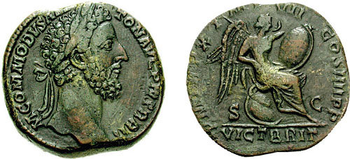 Commodus. 177-192 AD. Æ Sestertius (26.22 g, 1h). Struck 185 AD. M COMMODVS ANTON AVG PIVS BRIT Laureate head right P M TR P X IMP VII COS IIII P P S-C; VICT BRIT in exergue, Victory seated right on shields, inscribing shield set on knee. RIC III 452; MIR 18, 665-6/30 var. (VIC BRIT in exergue); BMCRE 560 var. (obverse legend break); Cohen 946. Good VF, dark brown, red, and green patina, minor smoothing. This coin was part of a series of issues commemorating the successful quelling of a revolt that had erupted in Britain 184 AD.